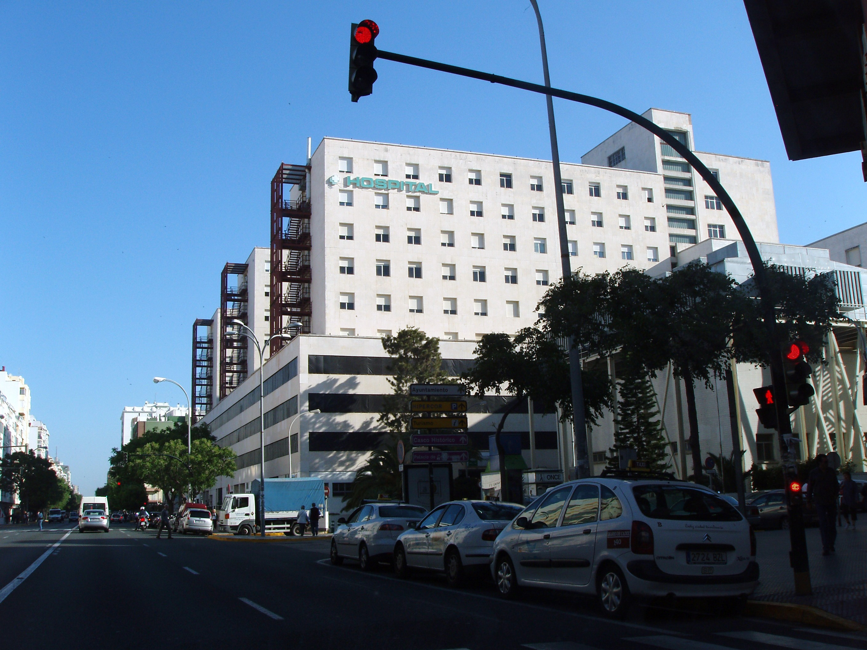 Hospital Puerta del Mar, Cádiz